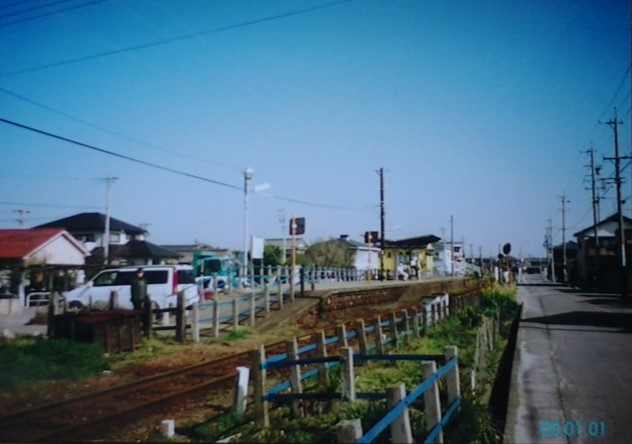 Meitetsu Mikawa line Terazu Station (2004 March)